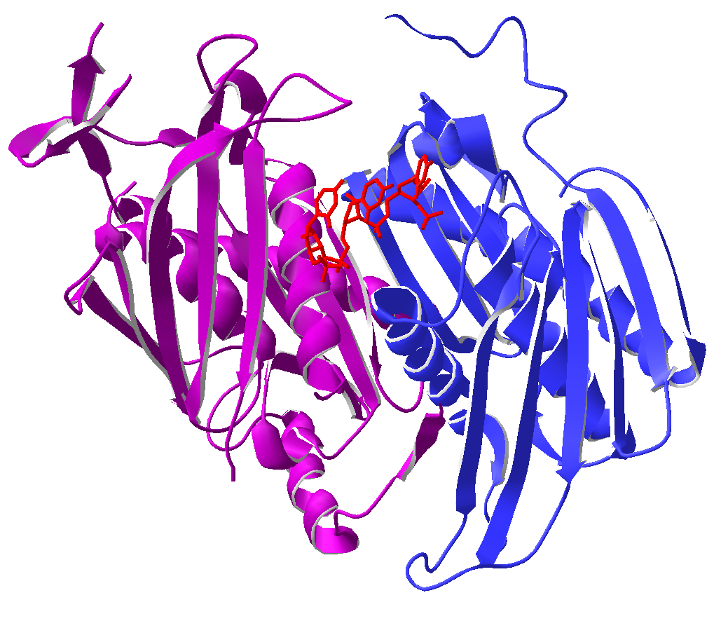 Two core subunits of the archaeal exosome complex, bound to U8 RNA. Based on crystal structure 2C37.